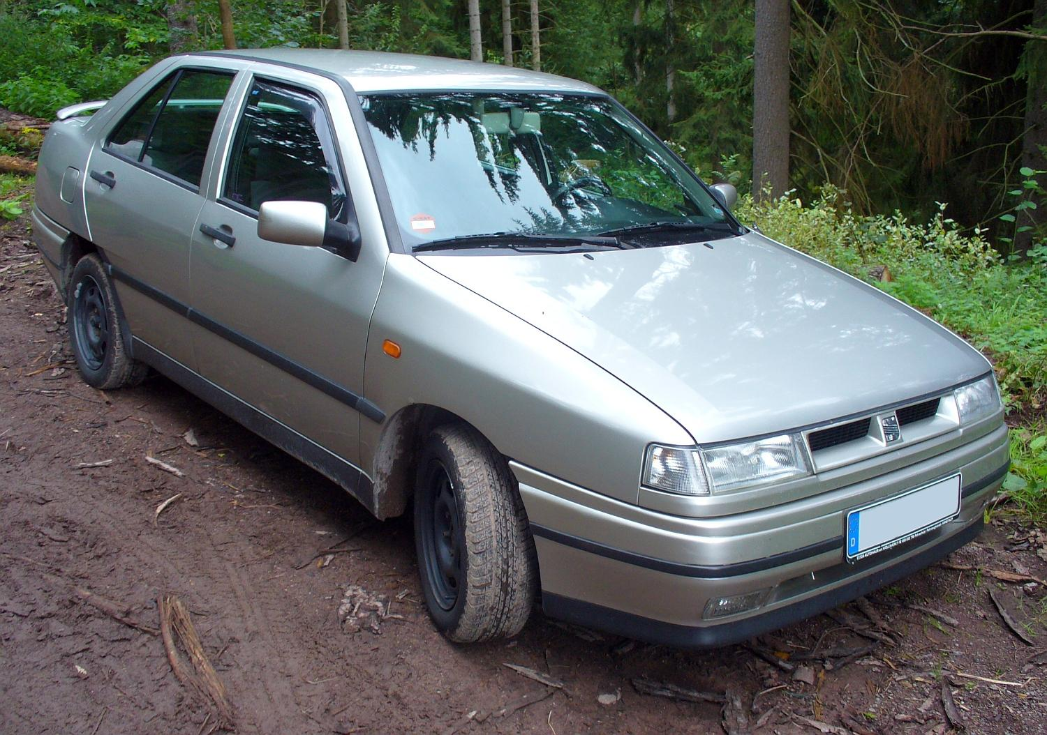 Seat Toledo